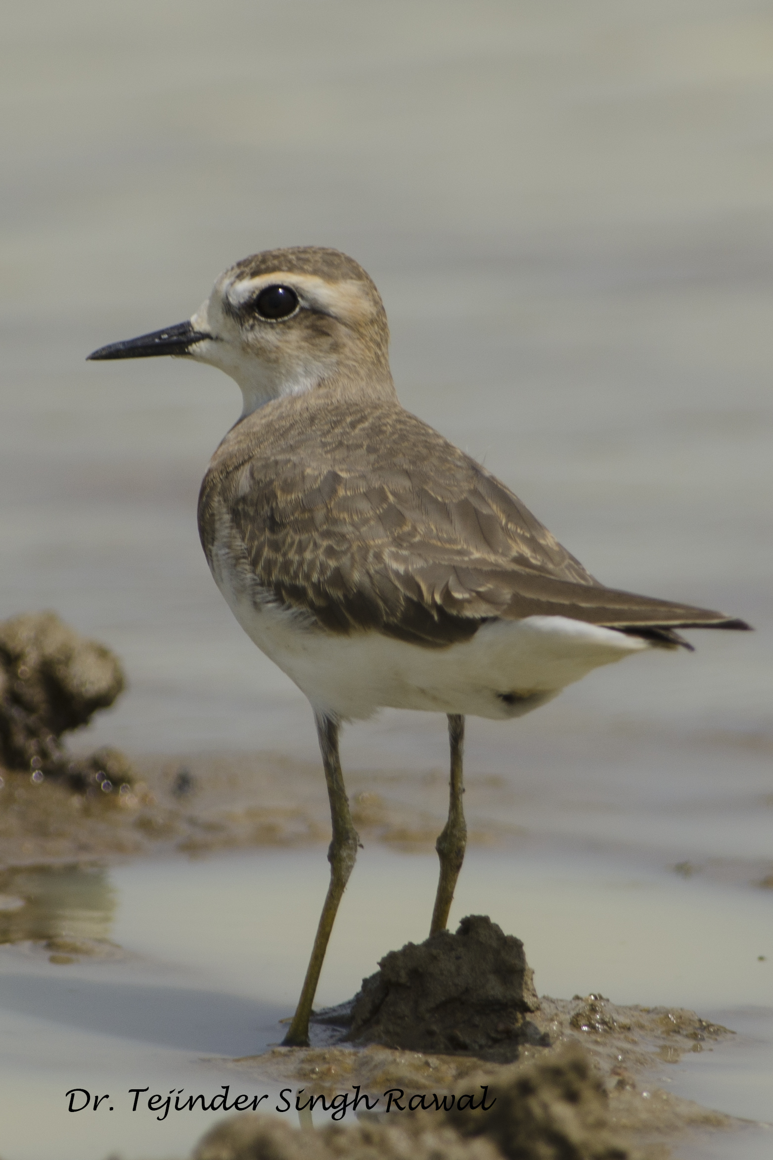 Caspian Plover in Koonthalulam, India, by Dr. Tejinder Singh Rawal